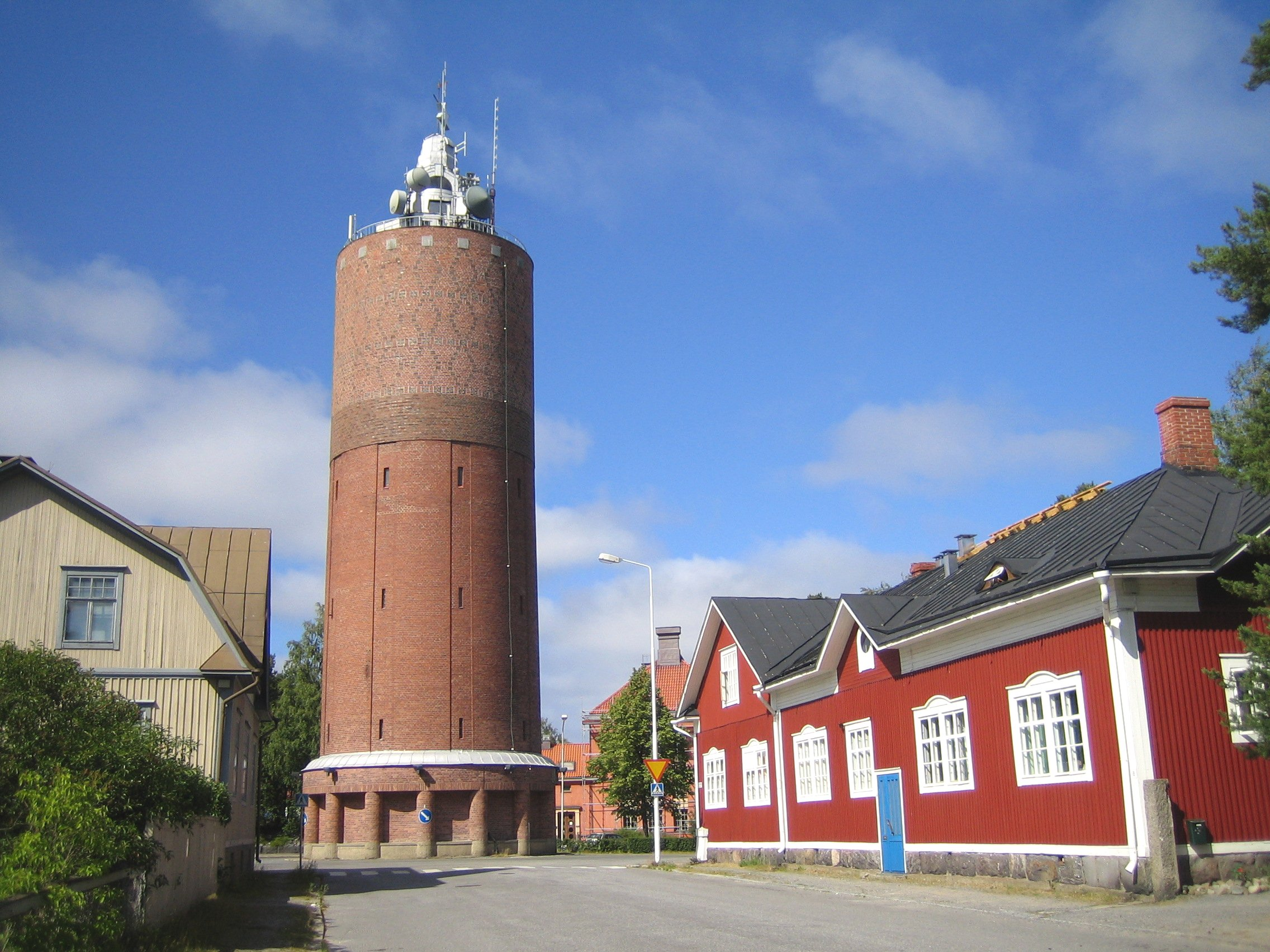 Water tower and surroundings, Kokkola, Finland. The water tower has been designed by architect Selim A. Lindqvist and was completed in 1921